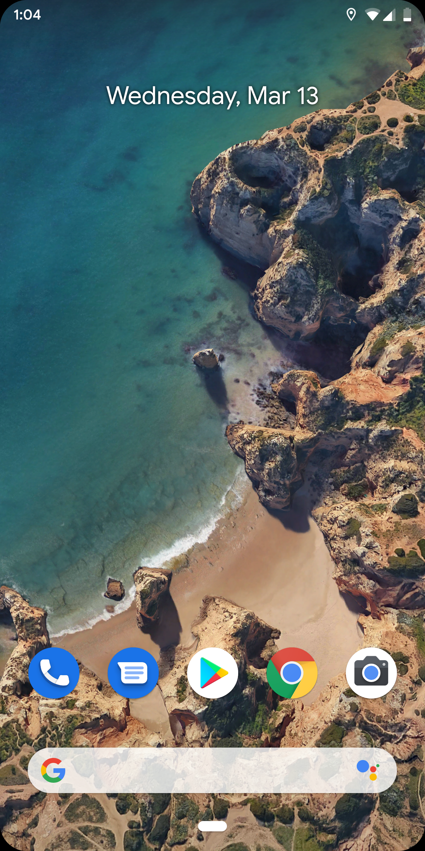 Screenshot of Android Q Beta 1 running on the Google Pixel 2 XL